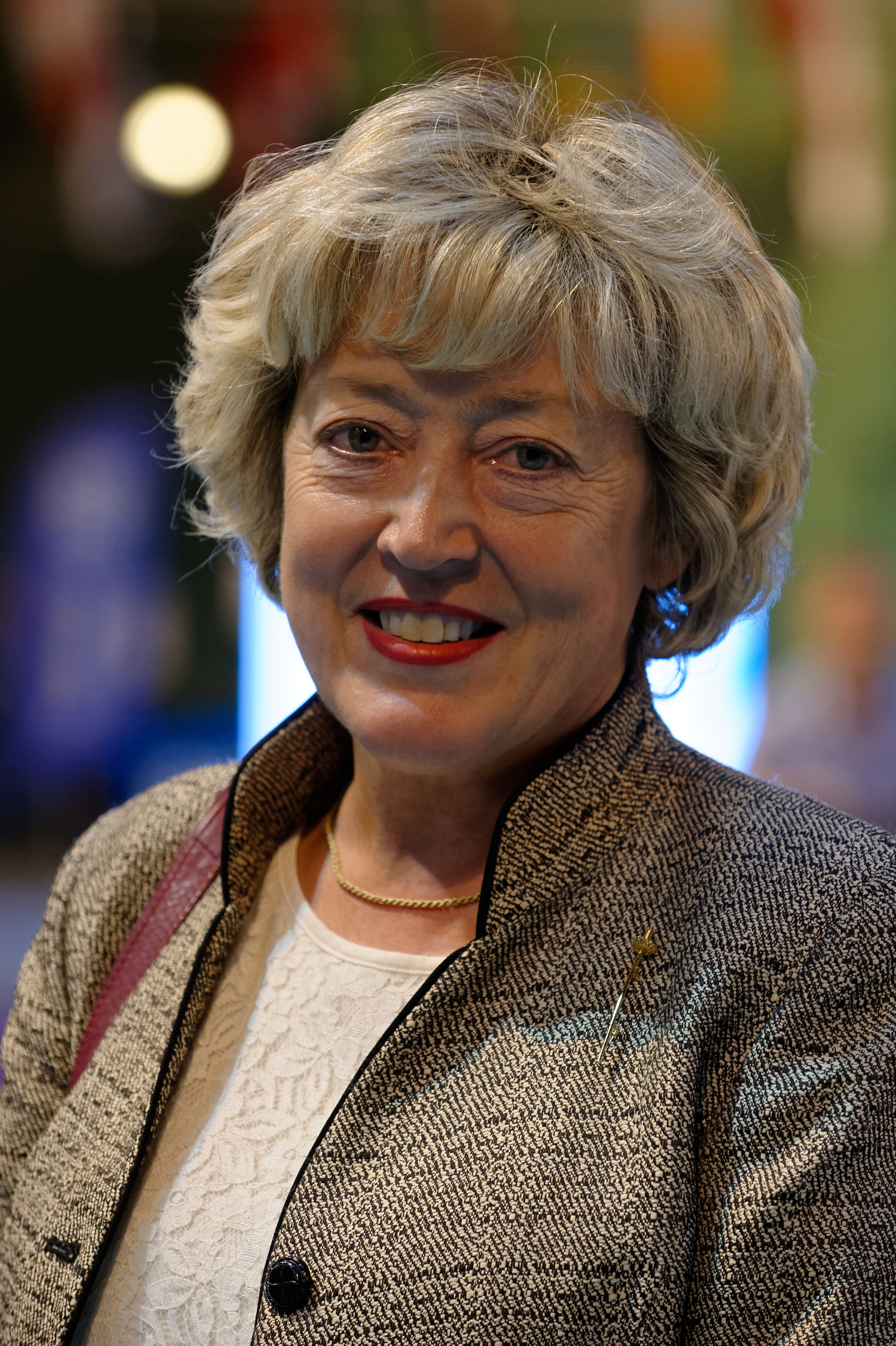 Hilary Philbin, president of British Fencing, at the 2015 Saint-Maur women's foil World Cup.